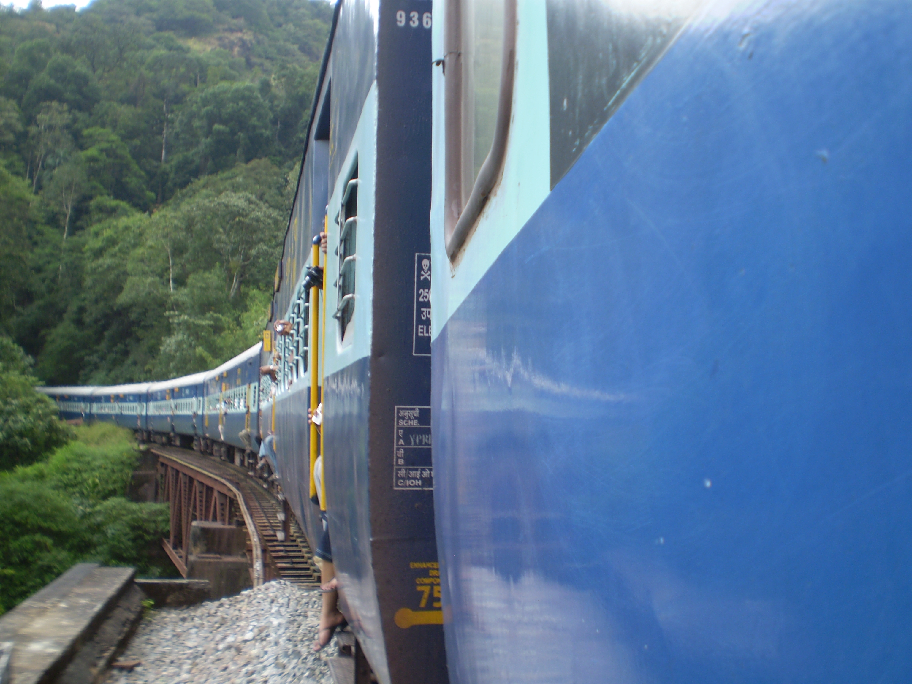 This is a view of a train going through green route. This is between Sakaleshpur & subramanya road stations